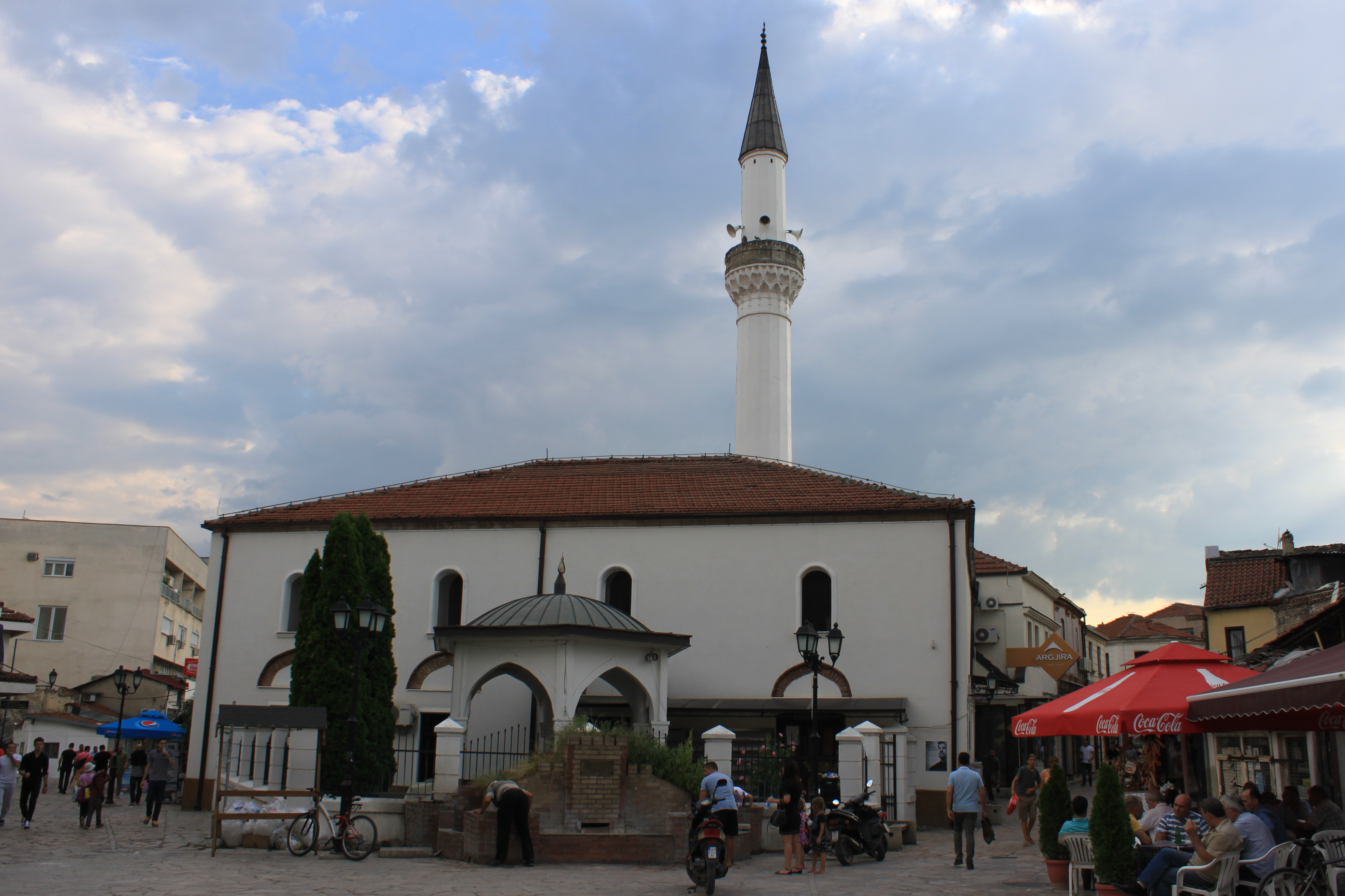 Murat Pasha Mosque, view from the north; Skopje, Macedonia